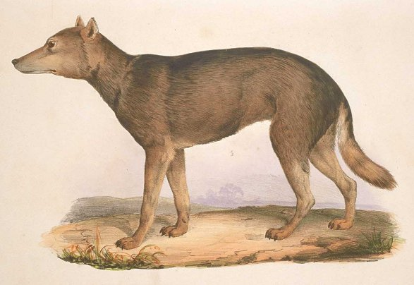 Honshu wolf. This may actually represent a yamainu (mountain dog), as the mounted specimen upon which it was based was labeled as such by Siebold, who had encountered both mountain dogs and wolves.